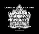 Symbol of the Canadian Army Film and Photo Unit. Source: Canadian Military. Now in Public Domain.